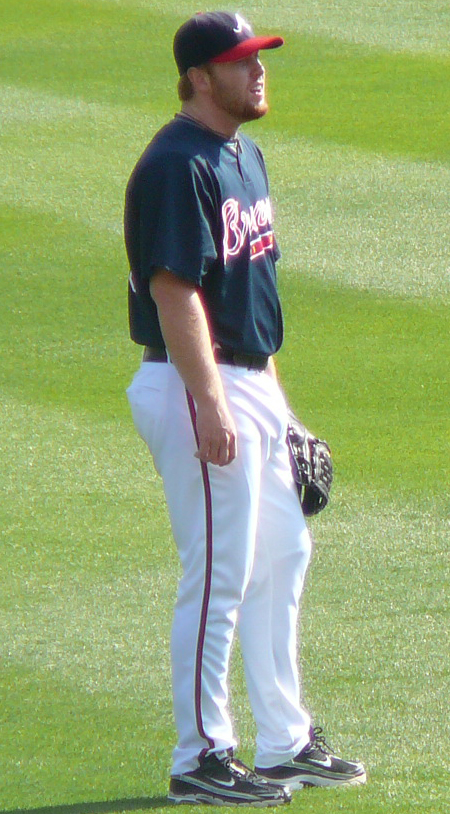 User:Chrisjnelson agreed to license this image of Blaine_Boyer2.jpg under a free attribution license. Any use of this image must be attributed; this means that Photo by :en:User:Chrisjnelson|Chris Nelson should be in the picture caption. 21:19, 23 April 2008 . . Chrisjnelson . . 450×814 (401 KB)